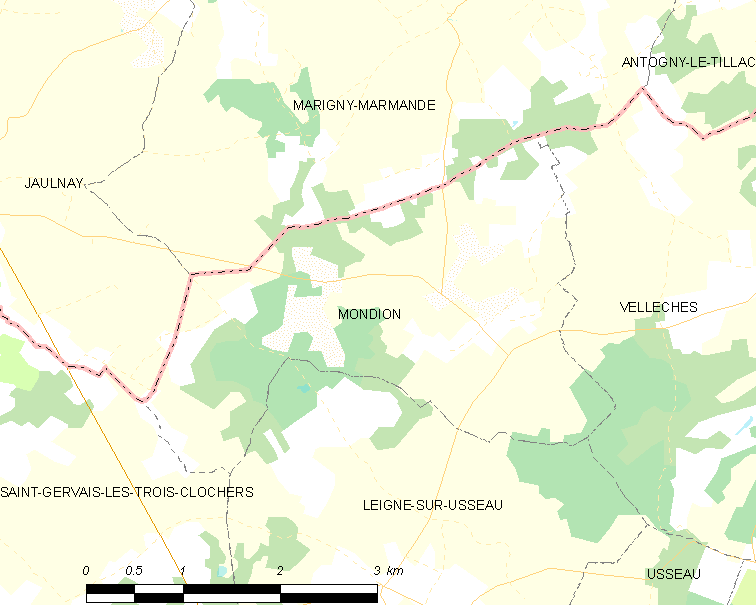 Map of French municipality Mondion